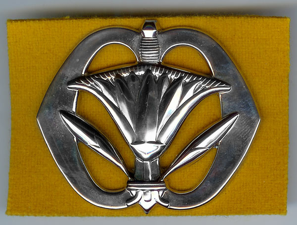 Dutch cap badge of the Militaire Administratie (2001-2010)